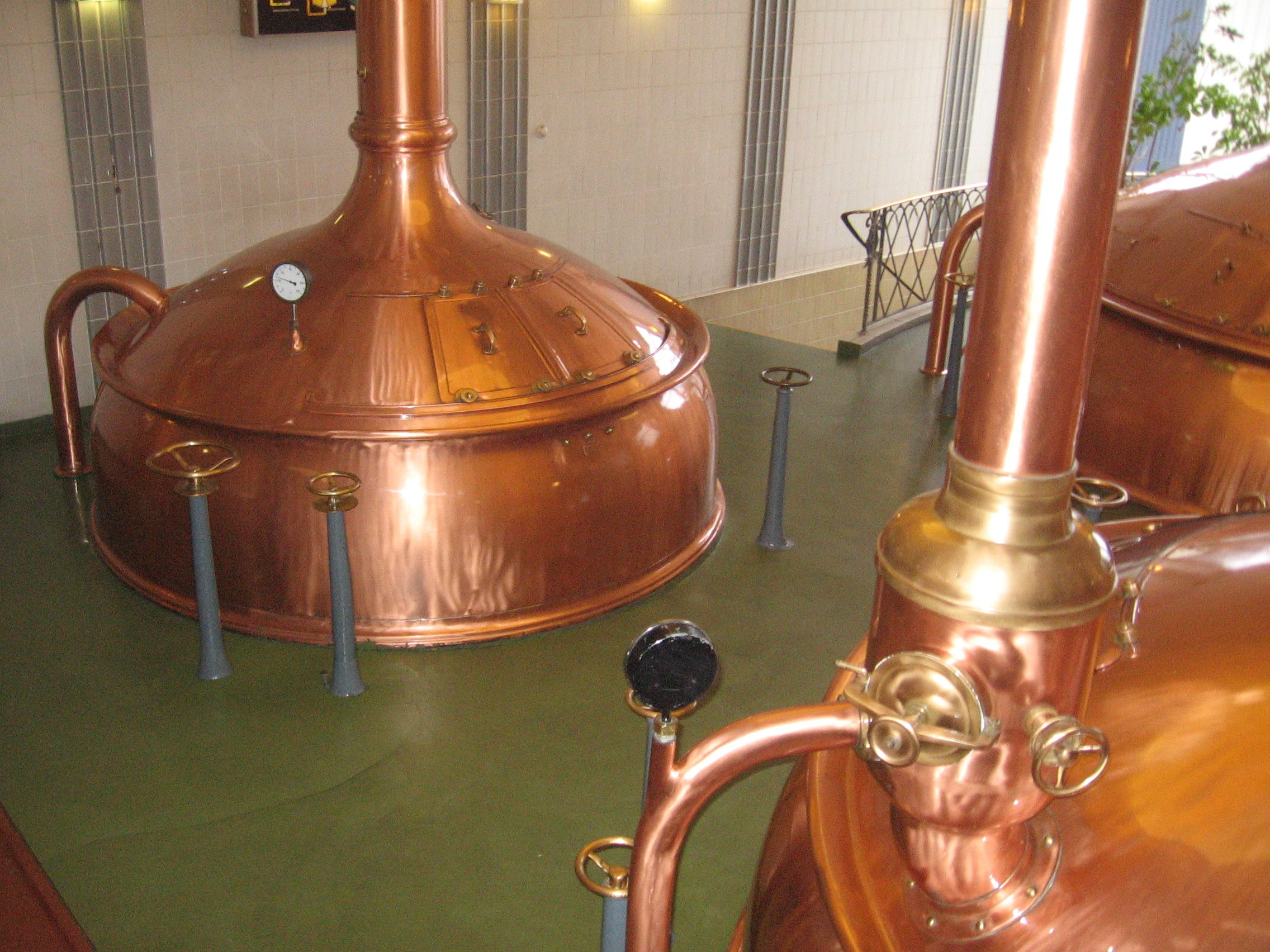 Brewery in town of Hiddenhausen, District of Herford, North Rhine-Westphalia, Germany.